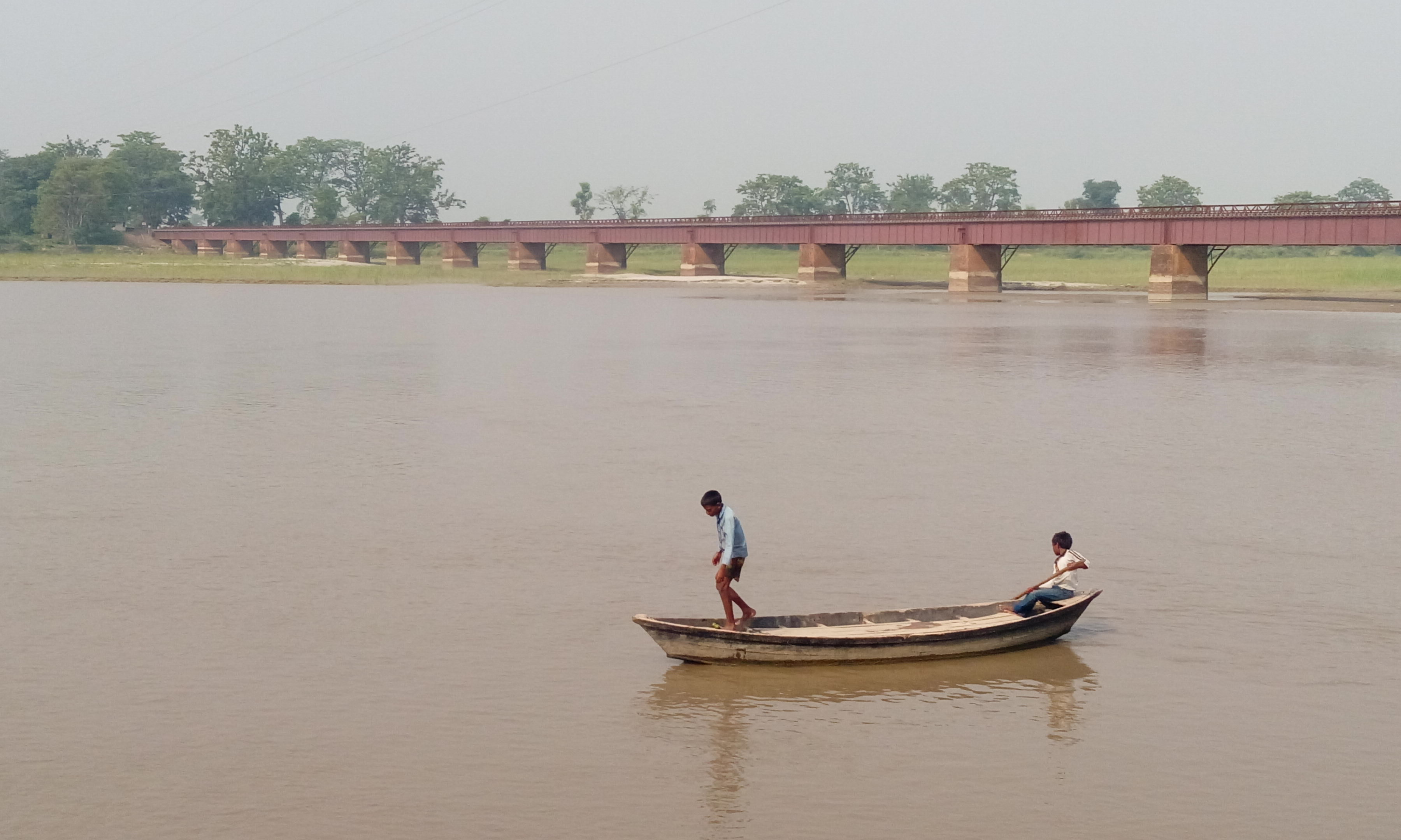 Boating by people living nearby Sharda River